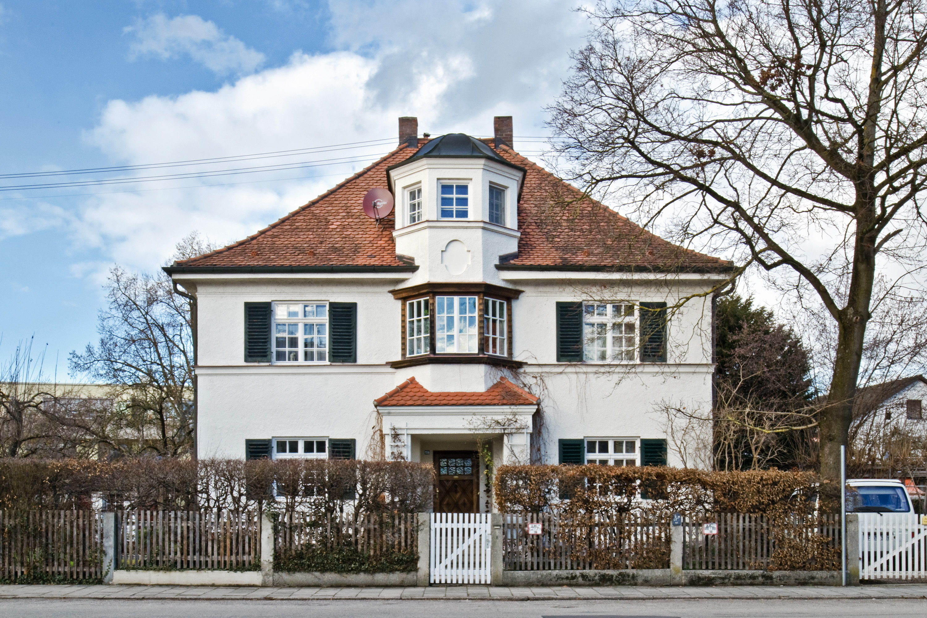 This is a photograph of an architectural monument.